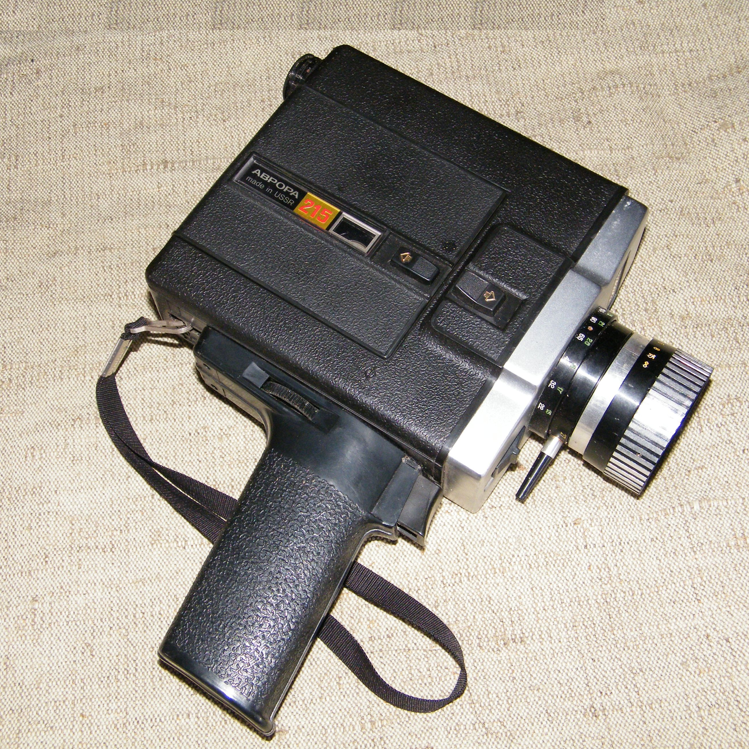 Аврора-215 кинокамера